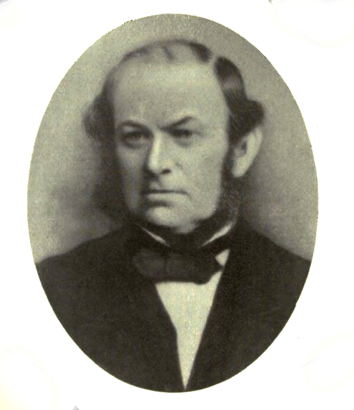 James Veitch junior (1815-1869), Horticulturist The subject is long-deceased, and the photo was taken before 1900 - the photographer is presumably unknown.